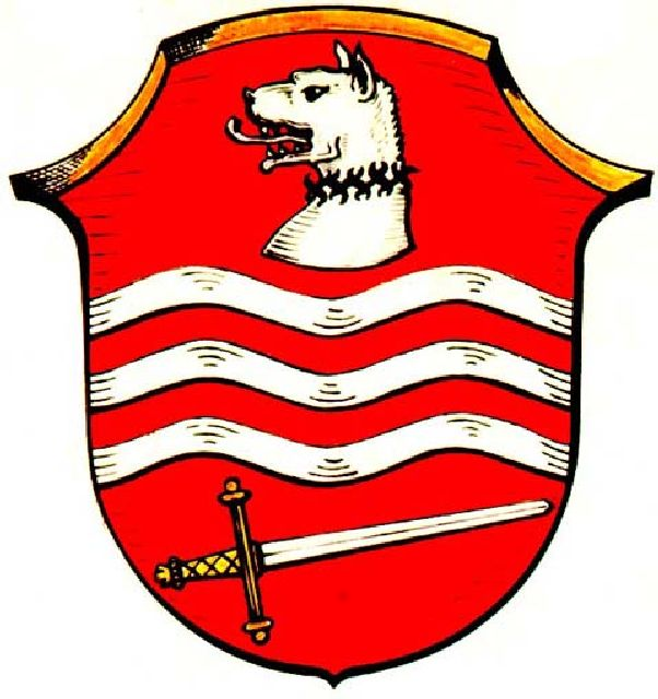 Coat of Arms of Rüdenau